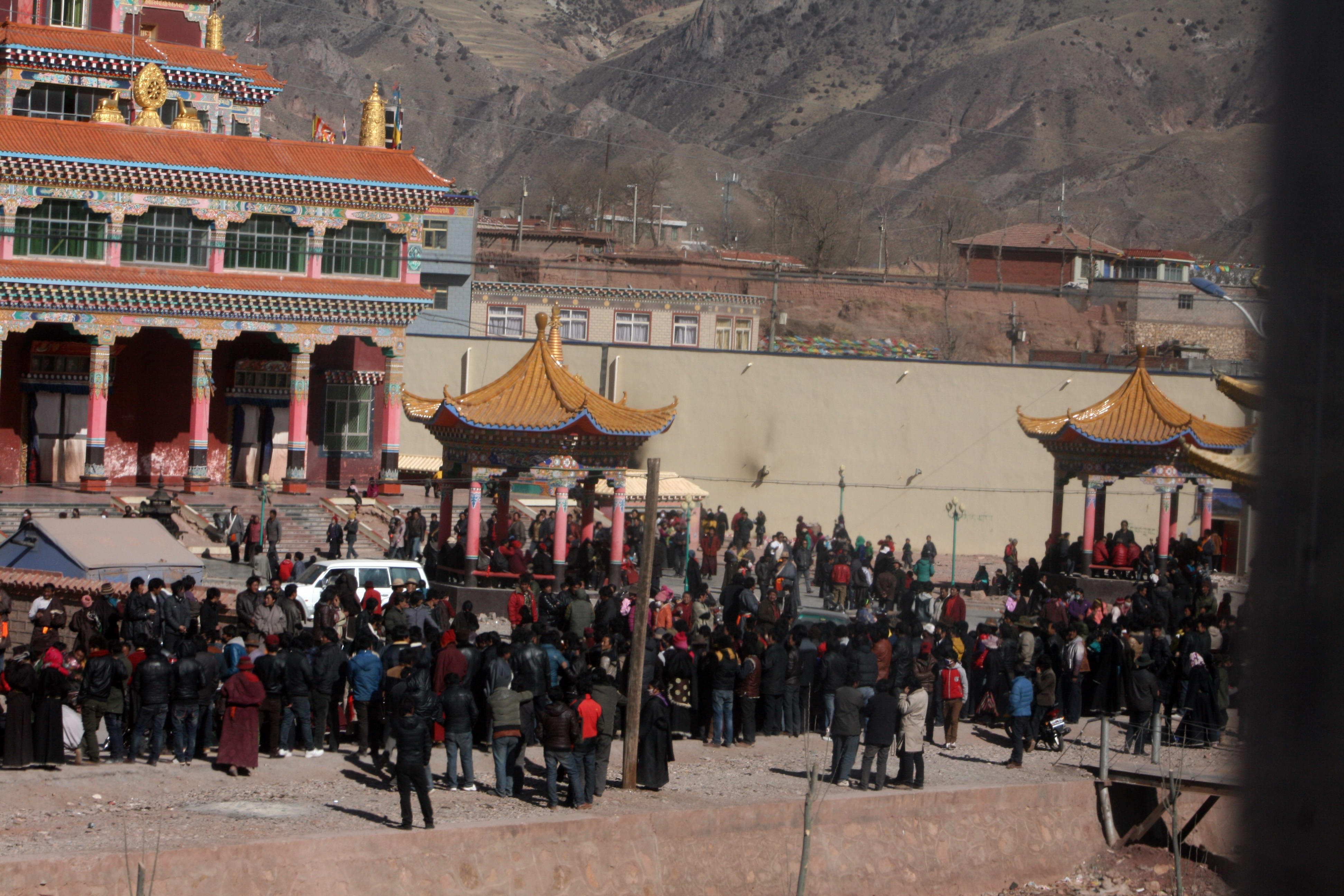 "They chanted prayers and [shouted slogans such as] "Freedom for Tibet" and "Long live the Dalai Lama," one source from inside Tibet told RFA. "When armed soldiers and policemen closed in, the Tibetans shouted "Kyi Hi Hi," a Tibetan battle cry in defiance," the source said. "The soldiers and policemen then retreated but watched from a distance. There was no clash between them but the protesters remained in the stadium." At the same time, several hundred Tibetans gathered in the main monastery in Nangchen town, chanting and tossing Tsampa [barley flour] into the air.